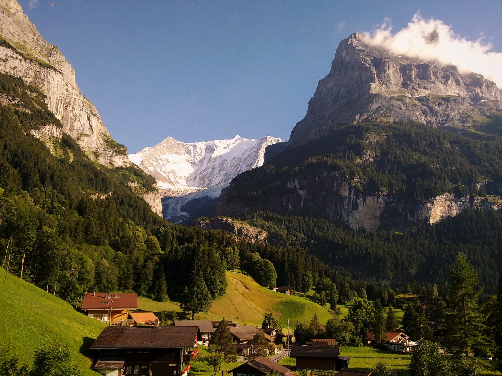 View to southeast from Grindelwald, Switzerland to the disappearing Lower Grindelwald Glacier with parts of the Mättenberg to the left, the Hörnli (2710 m a.s.l.) to the right, and the Fiescherhorn (4049 m a.s.l.) in the back